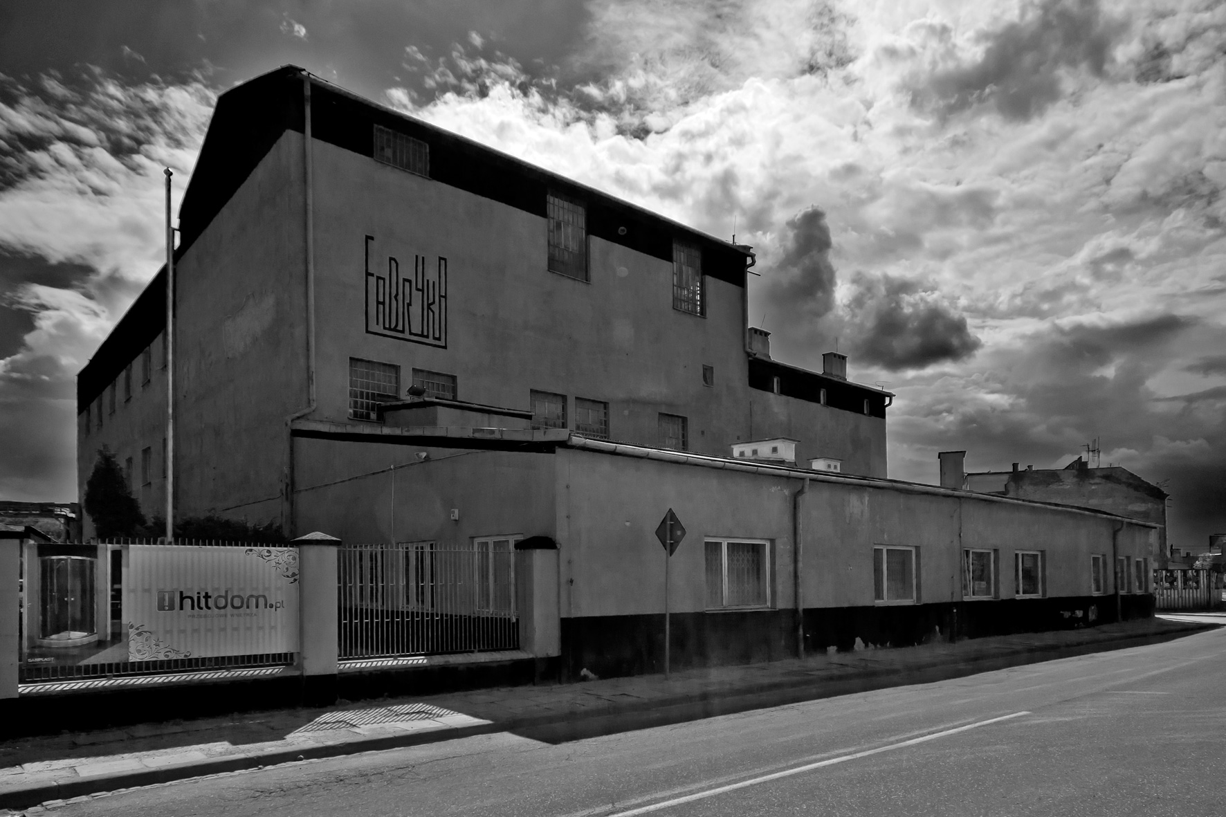 A building of former cosmetics factory "Miraculum", today "Factory Club" fot. Rafał Sosin